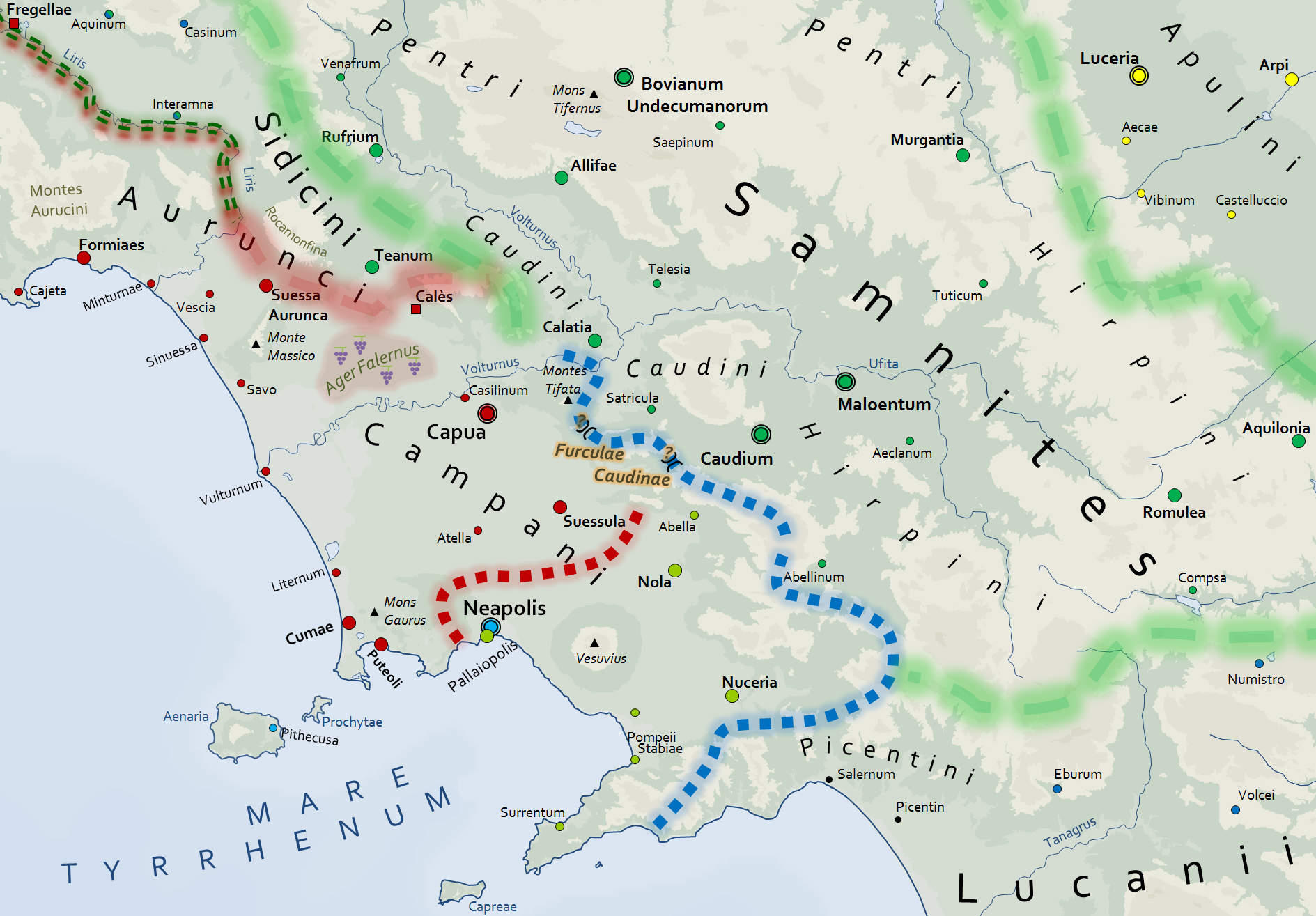 See Deuxième guerre samnite#Contexte for the full legend/caption of the map.